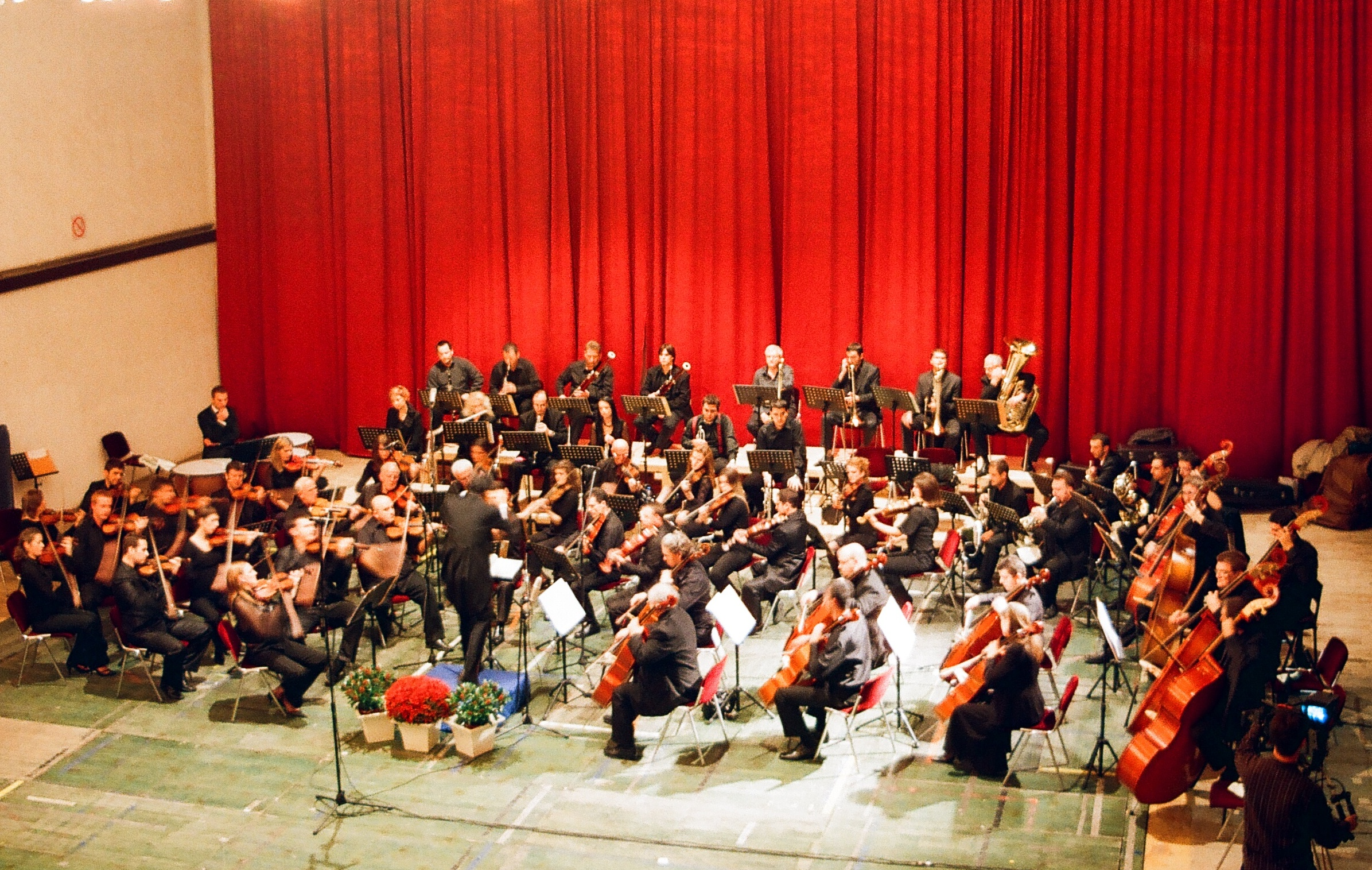 Philharmonic Orchestra of Kosovo performing in Pristina